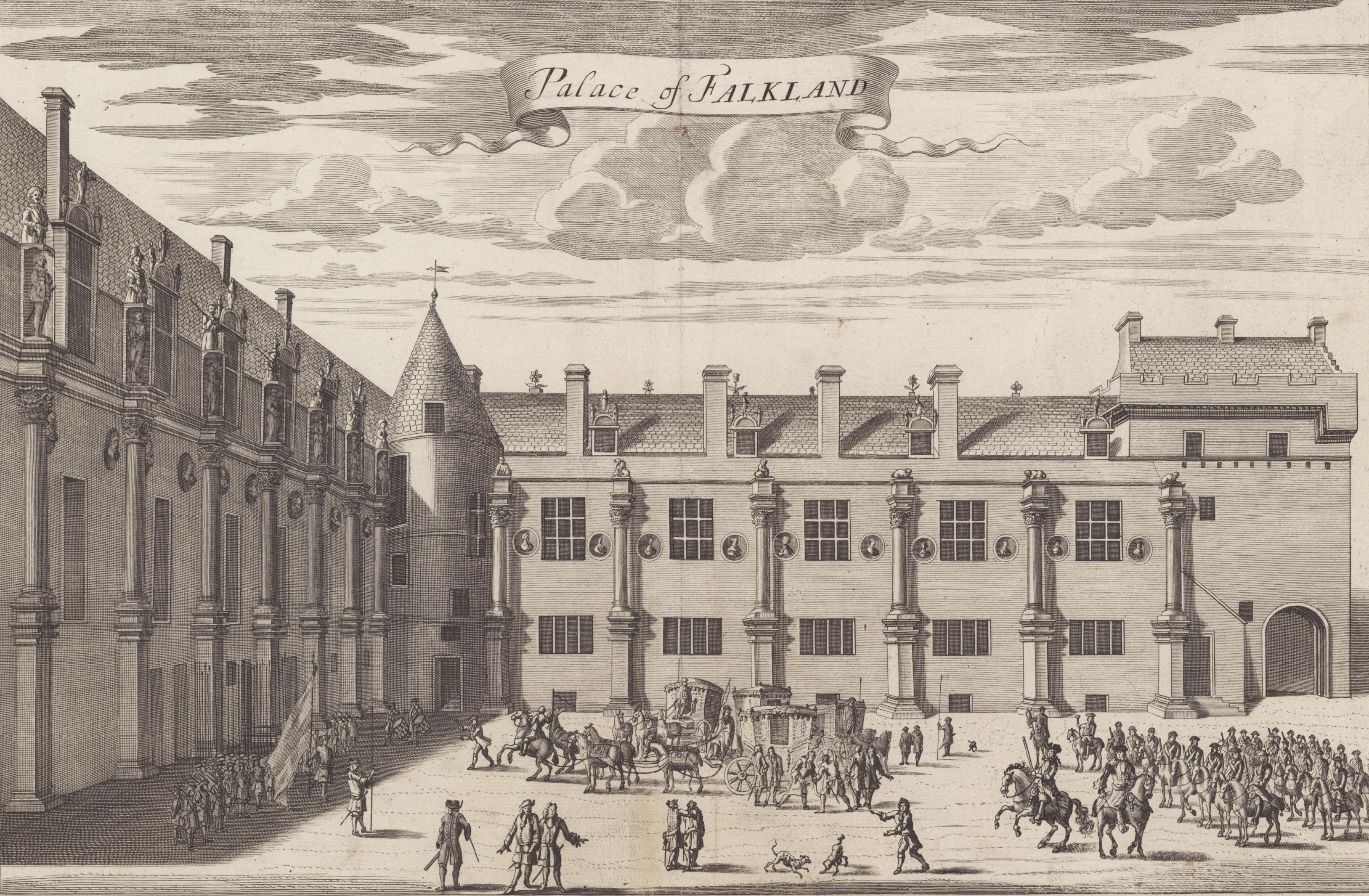 A view of the courtyard of Falkland Palace, with coaches, horsemen and troops (and dogs).